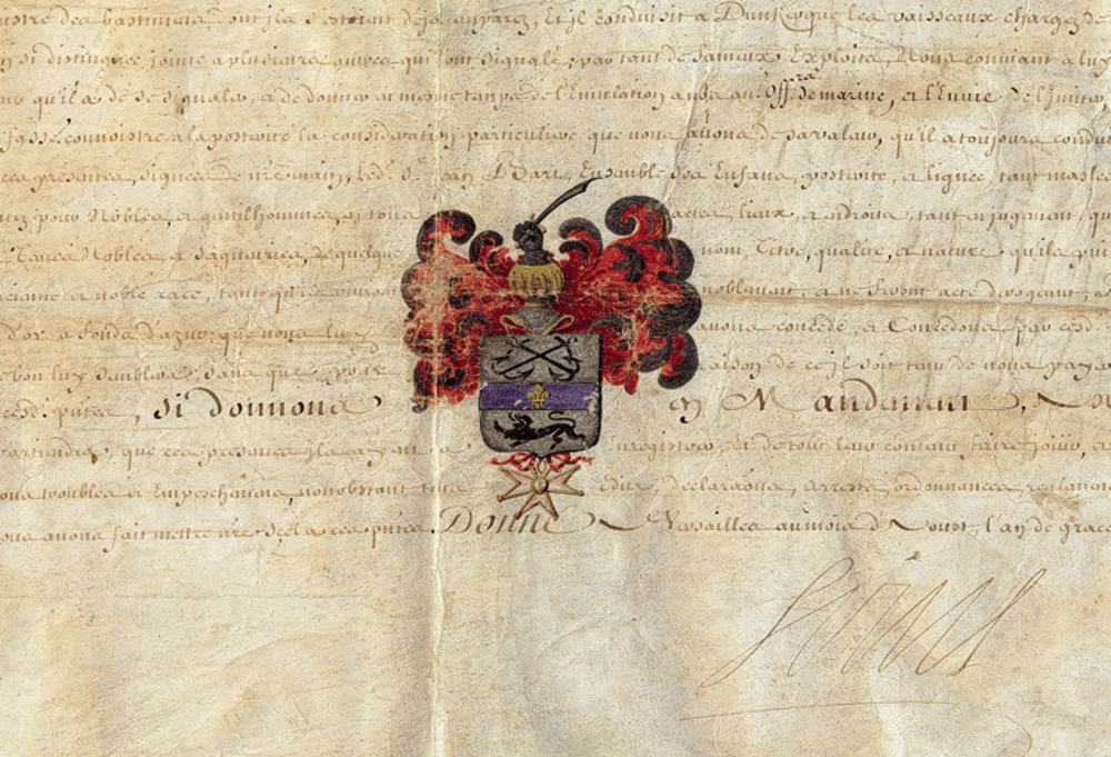 lettre patente octroyant des armes et la noblesse à Jean Bart